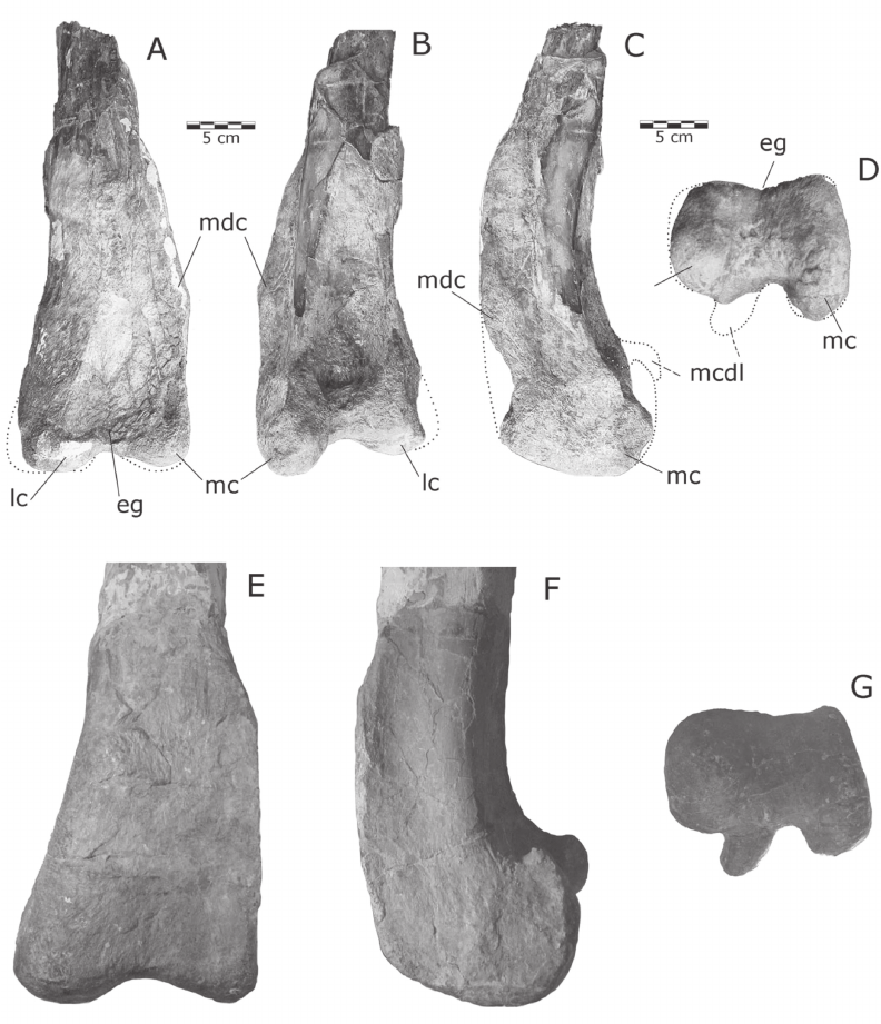 Fig. 1. Distal end of the femur of Quilmesaurus curriei A-D and Carnotaurus sastrei E-G, in anterior (A and E), posterior (B), medial (C and F) and distal (D and G) views. Abbreviations: eg: extensor groove; lc: lateral condyle; mc: medial condyle; mcdl: medial epicondyle; mdc: mediodistal crest.